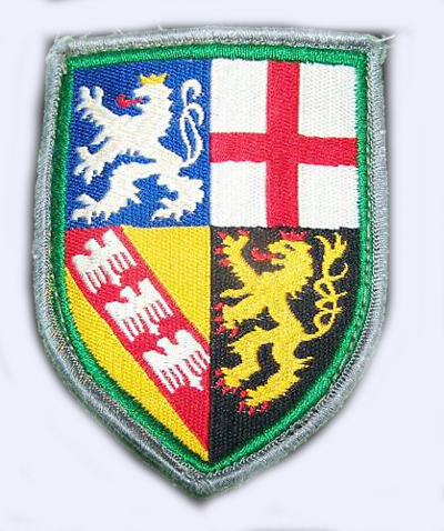 Home Defense Brigade 54